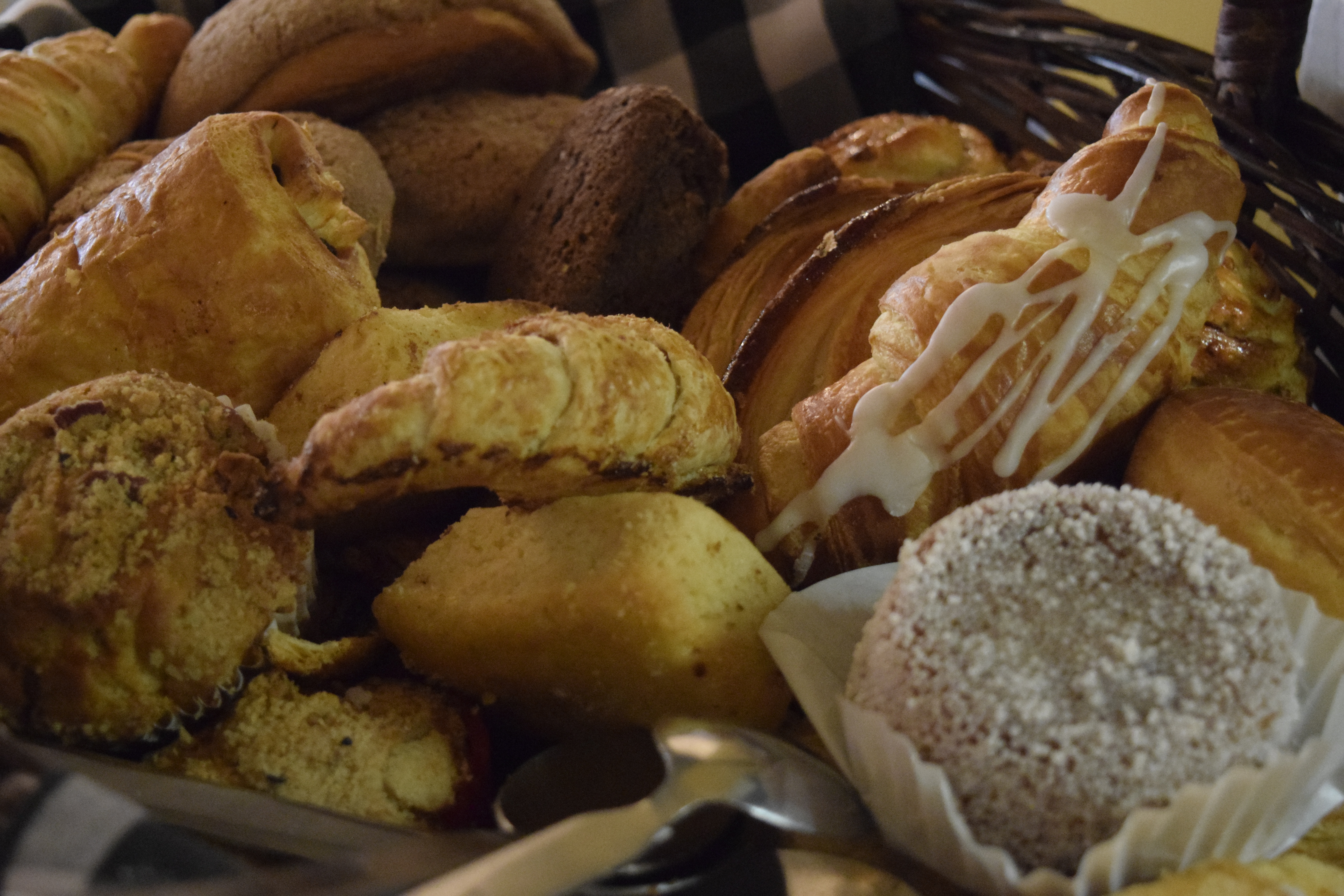 Different types of sweet bread in a basket.